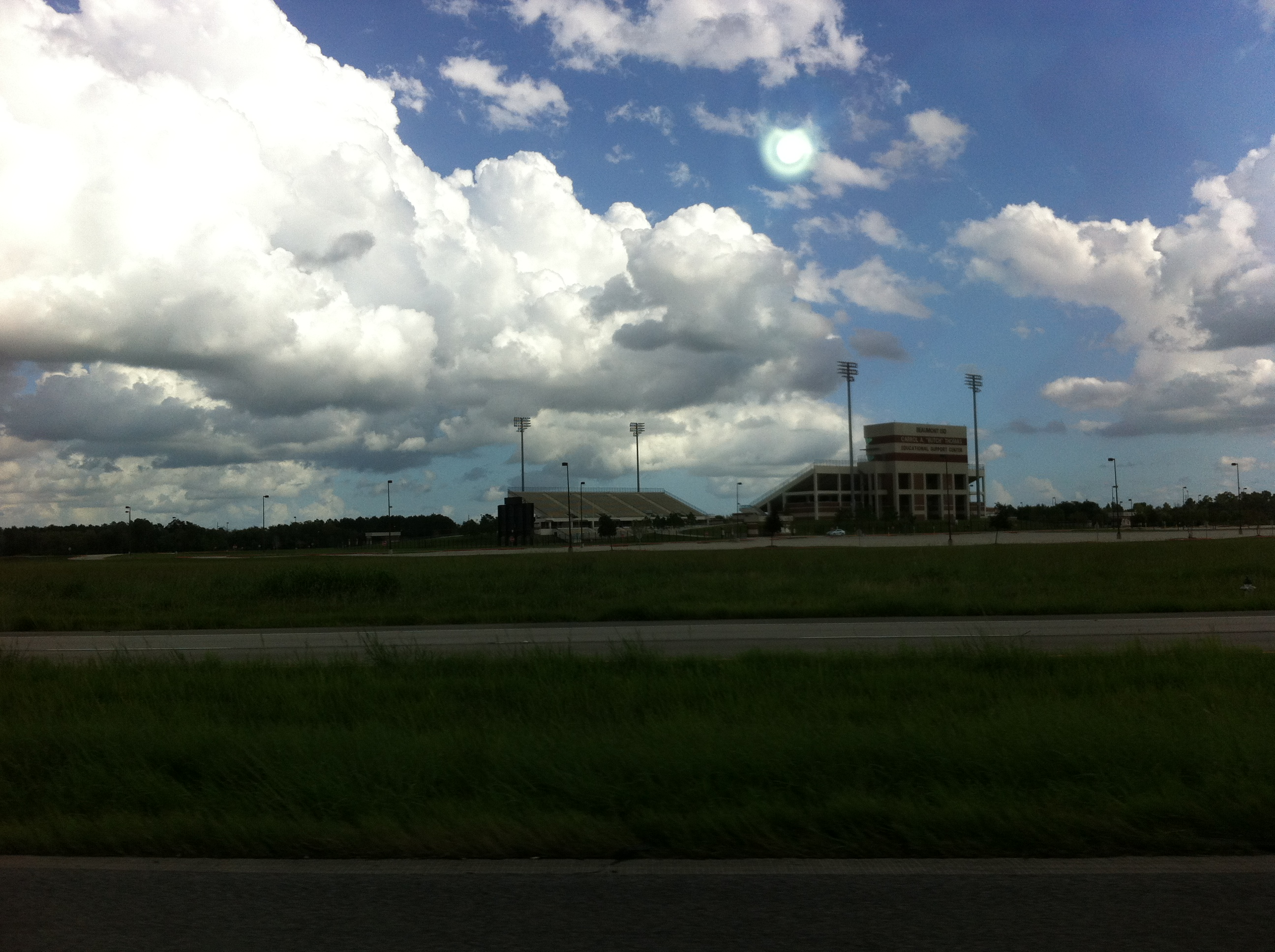 Carrol "Butch" Thomas Educational Support Center, Beaumont Independent School District